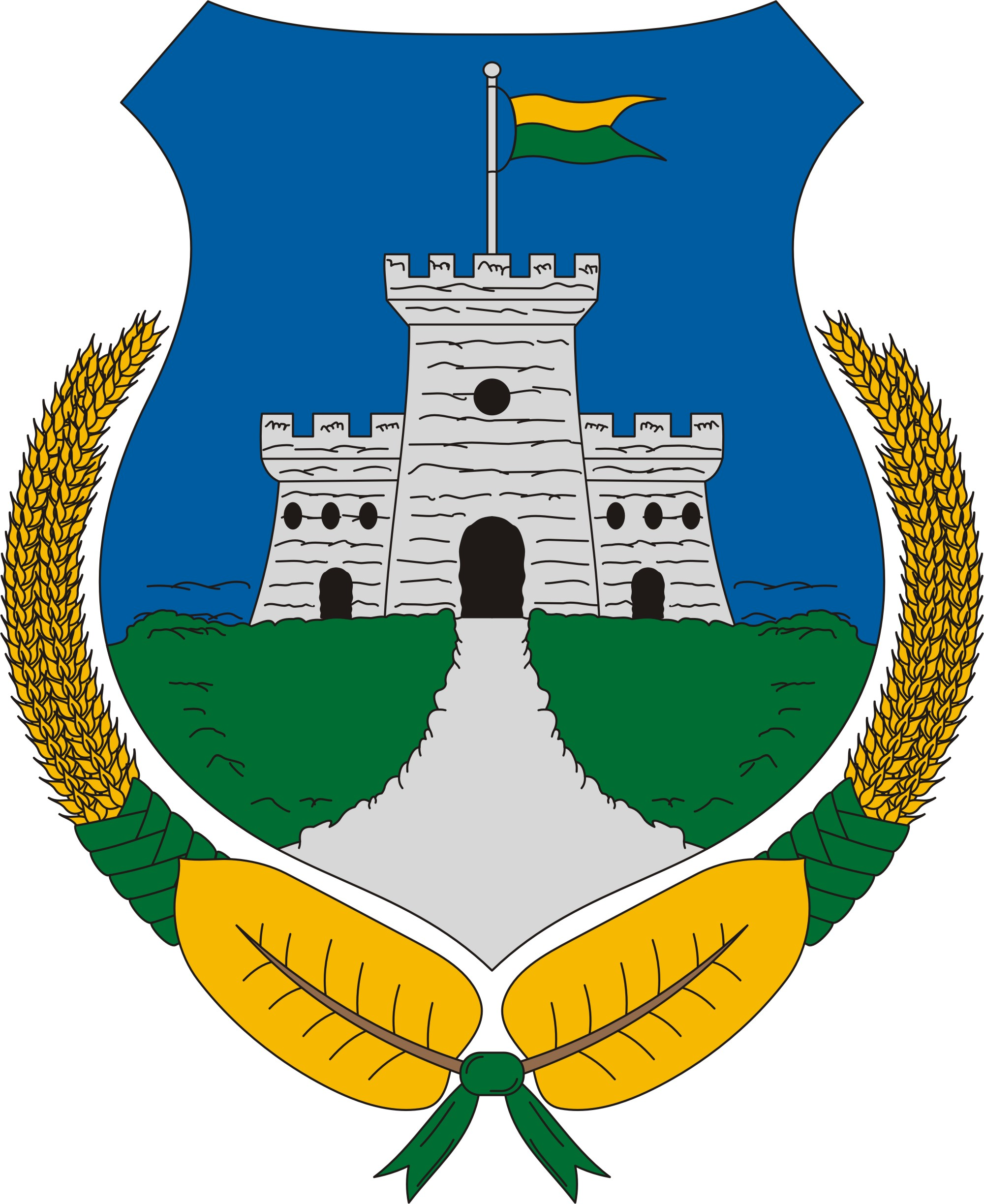 Coat of Arms of Hungarian city Pusztaföldvár